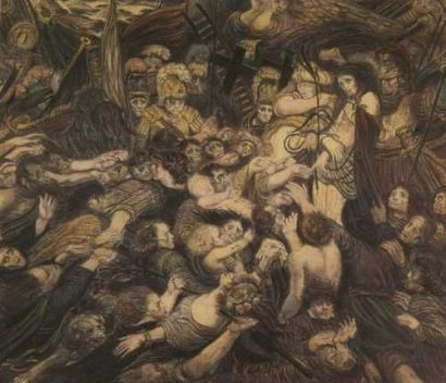 Christ aux Outrages by Henry de Groux 1889, oil on canvas, 293x363cm Private Collection